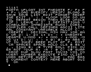 Shows the vocabulary list of a Jupiter Ace. Same content as but from an emulator so pixel-perfect and clear. Letters are transparent in a black surround, so the letters become the same colour as the background. This is a more efficient way of redefining the letter colours than setting the colour of all the pixels.